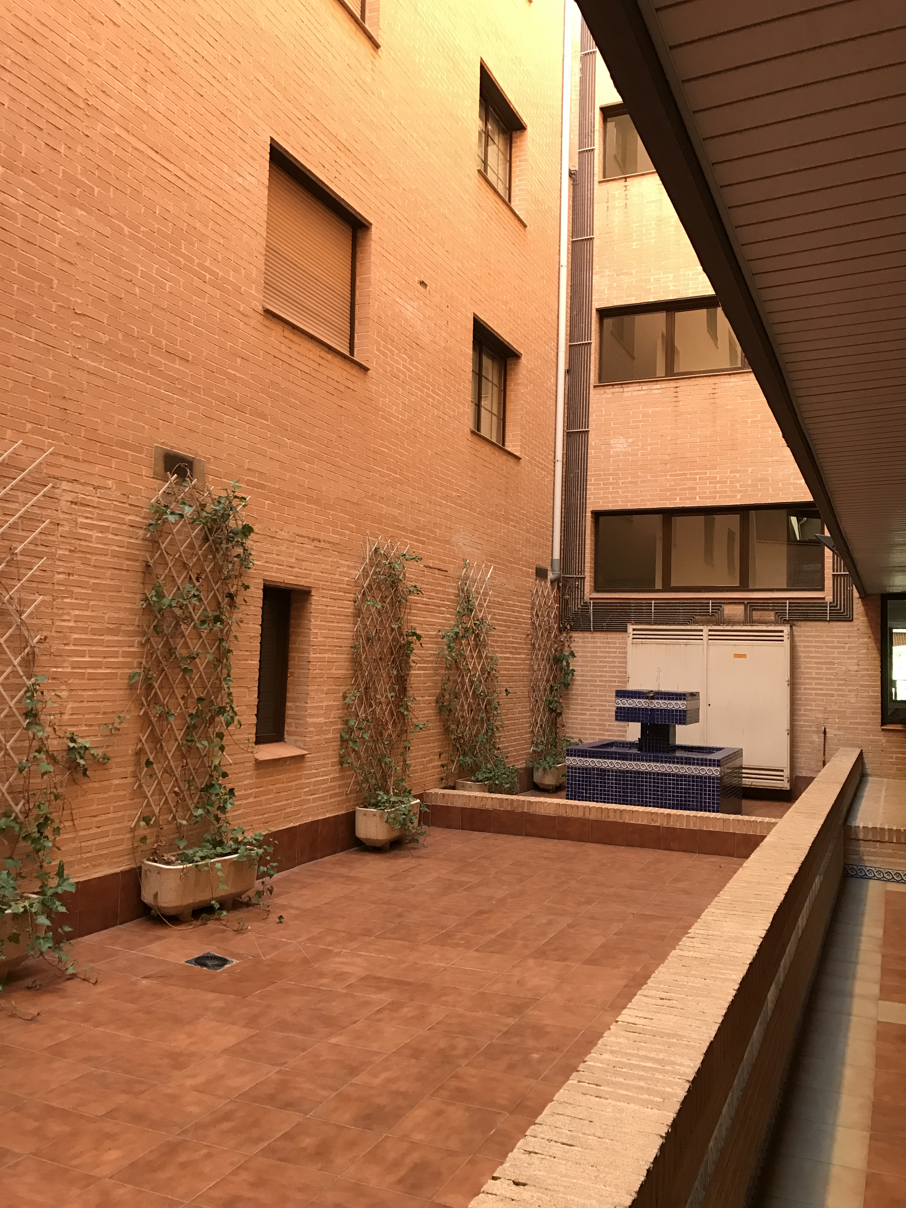 The central courtyard, or patio, of a modern apartment building in Toledo, Spain.